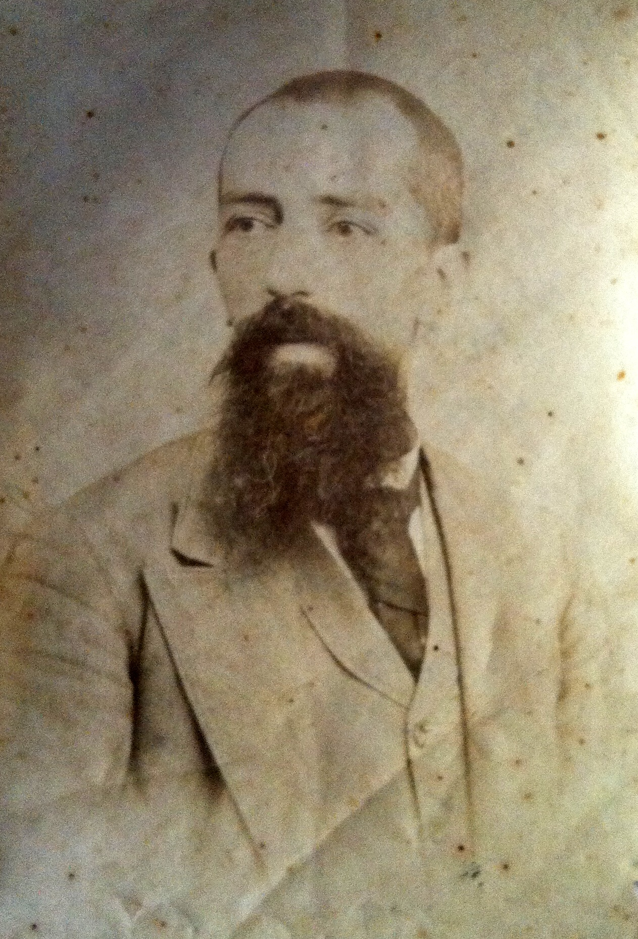 Wikipedia workshop in Museu Víctor Balaguer, in Catalonia Joan Oliva Milà